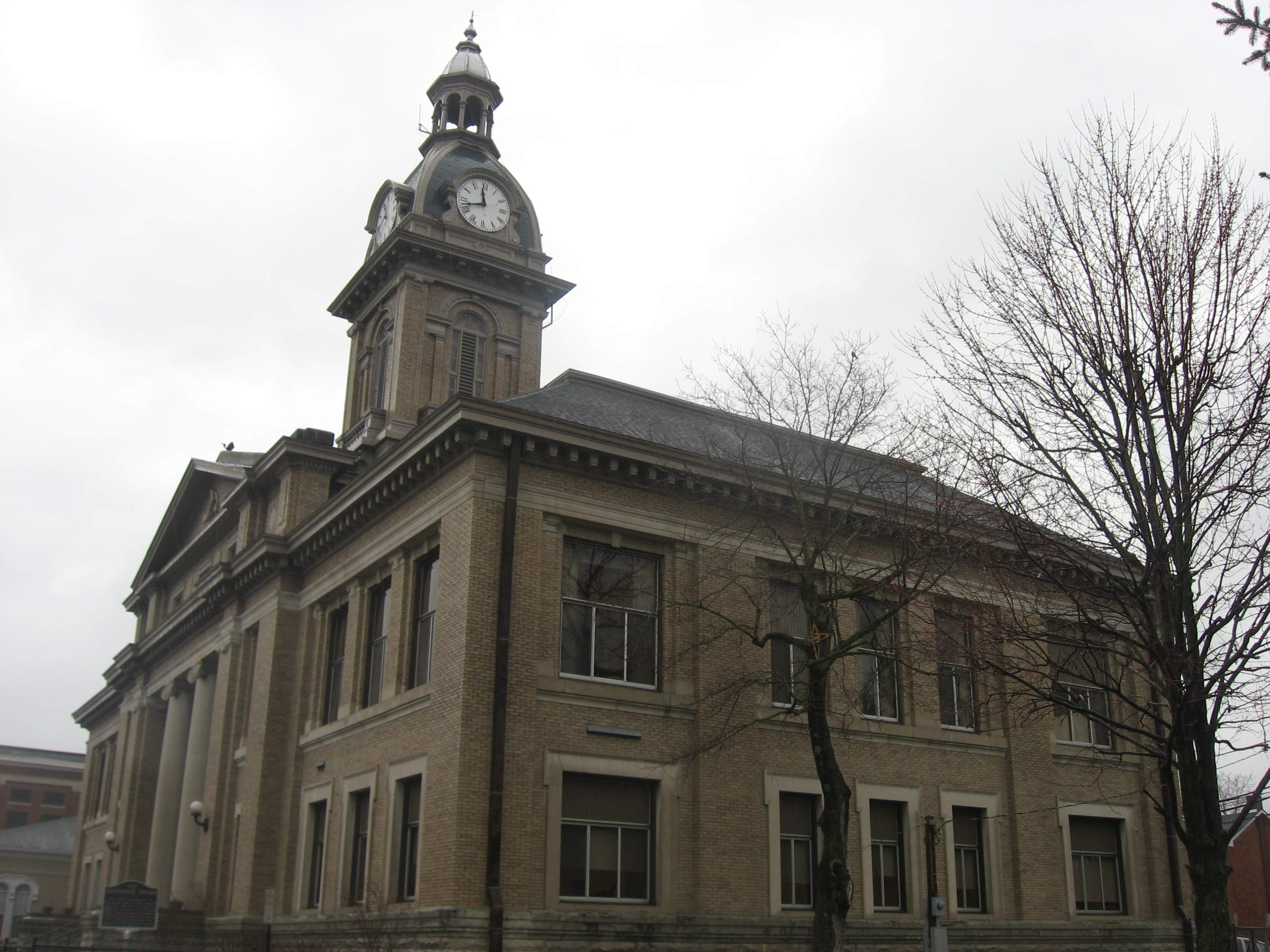 Front and southern side of the Franklin County Courthouse, located on Main Street (U.S. Route 52/State Road 1) between Fourth and Fifth Streets in Brookville, Indiana, United States. Built in 1859, it is part of a historic district, the Brookville Historic District, which is listed on the National Register of Historic Places.